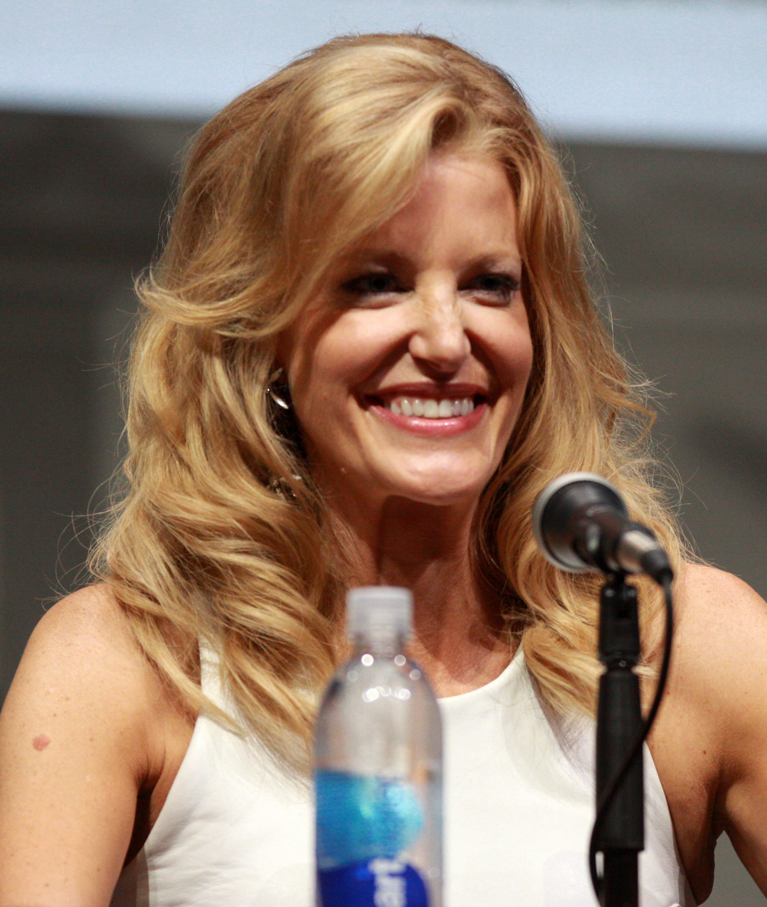 Anna Gunn at the 2013 San Diego Comic Con International in San Diego, California.